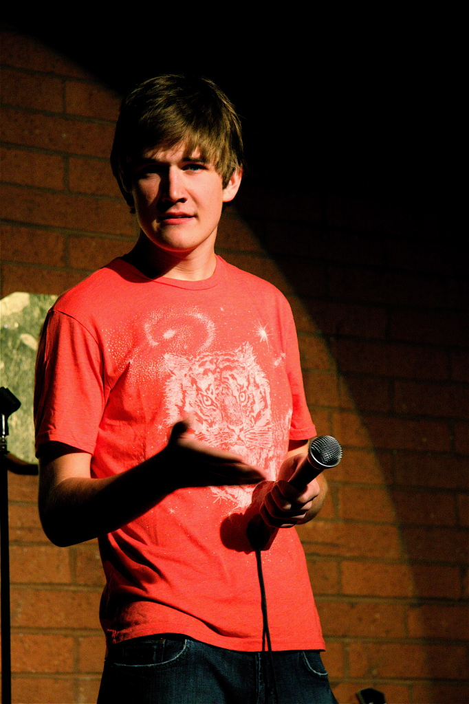 Comic Bo Burnham performs at The Improv in Tempe, Arizona, USA on 20 September 2008.